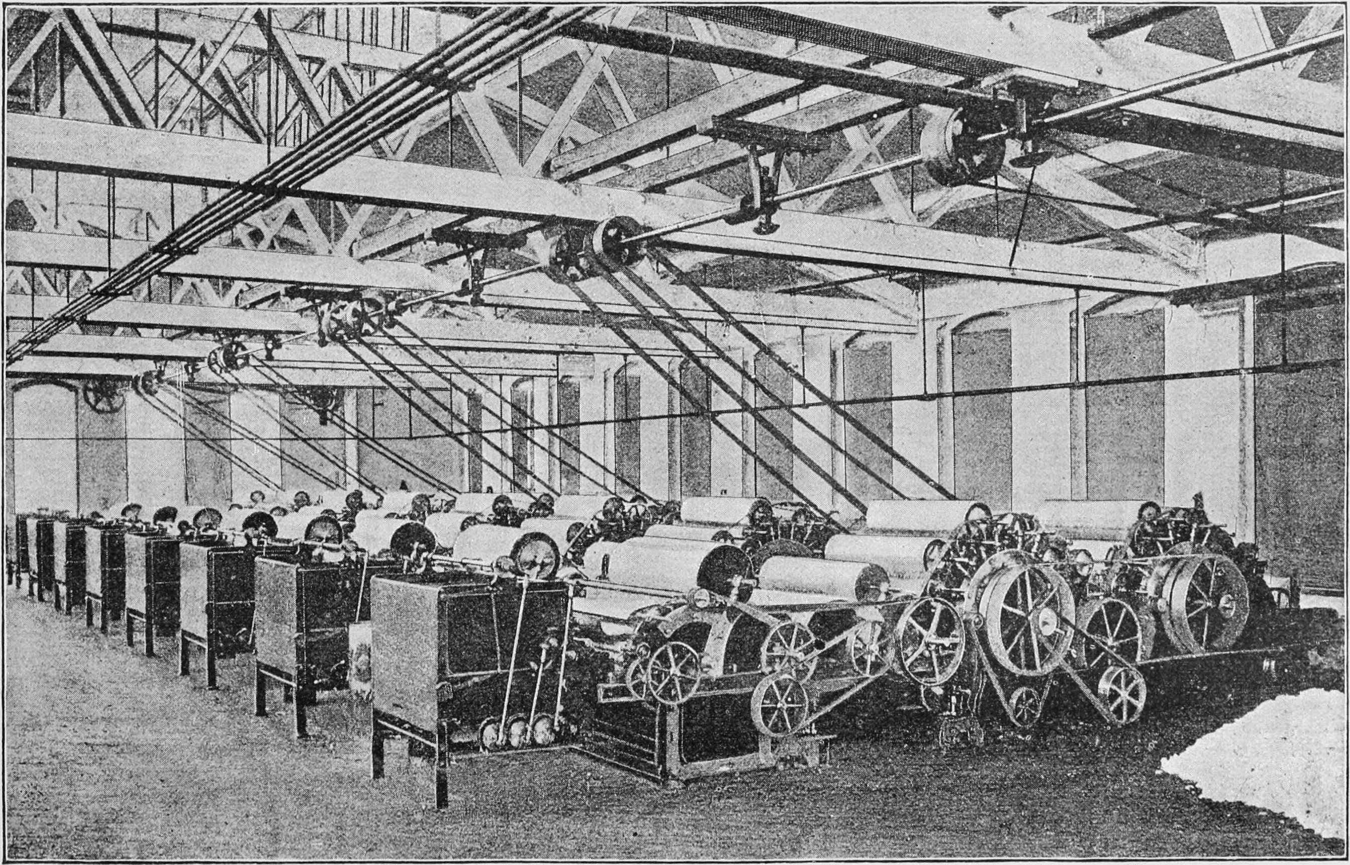 Section of a worsted card room